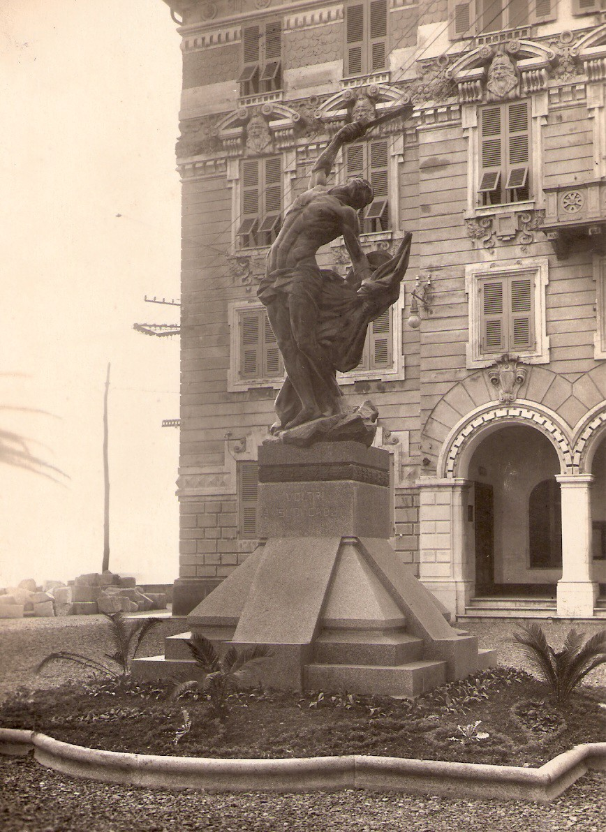 Original War memorial (1925) in Genoa Voltri Italy; sculptor: Vittorio Lavezzari (1864-1938) It is the monument to the original fallen that was fused during the last World War with little foresight and lack of fascist competence to obtain war material. Currently, another work has been put on the original stand